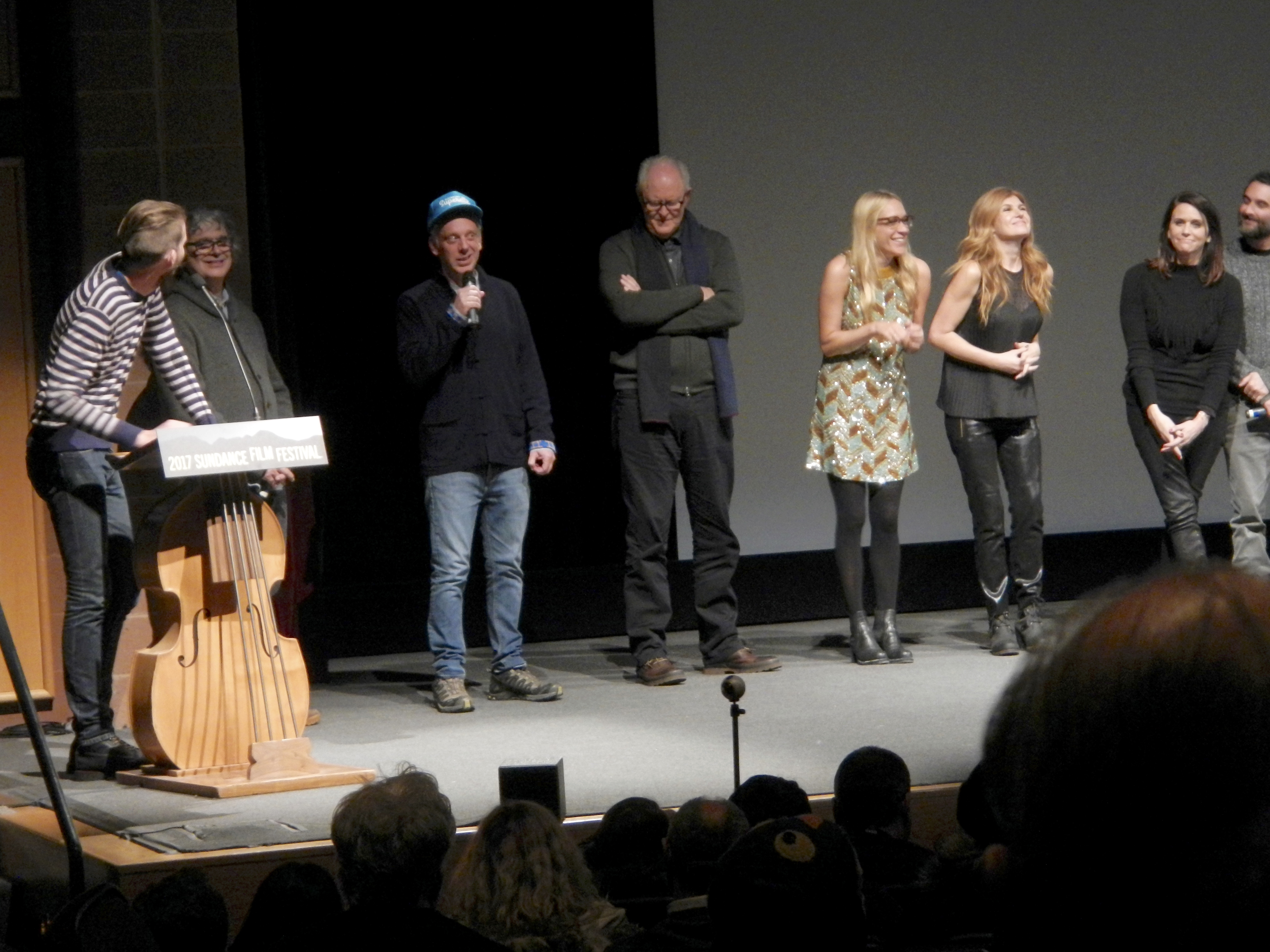 Beatriz at Dinner, Sundance 2017, Park City UT